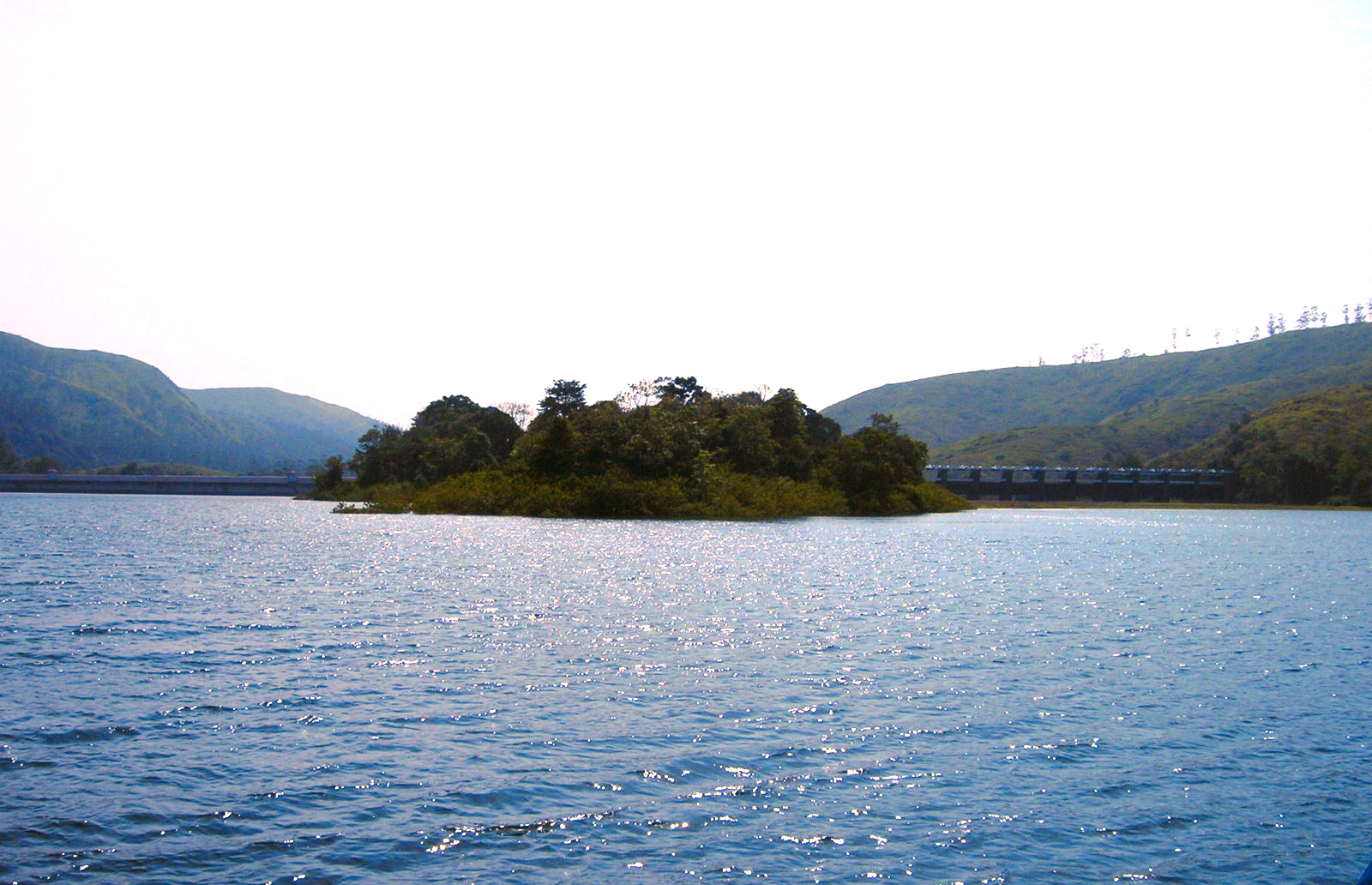 Mullaperiyar Dam